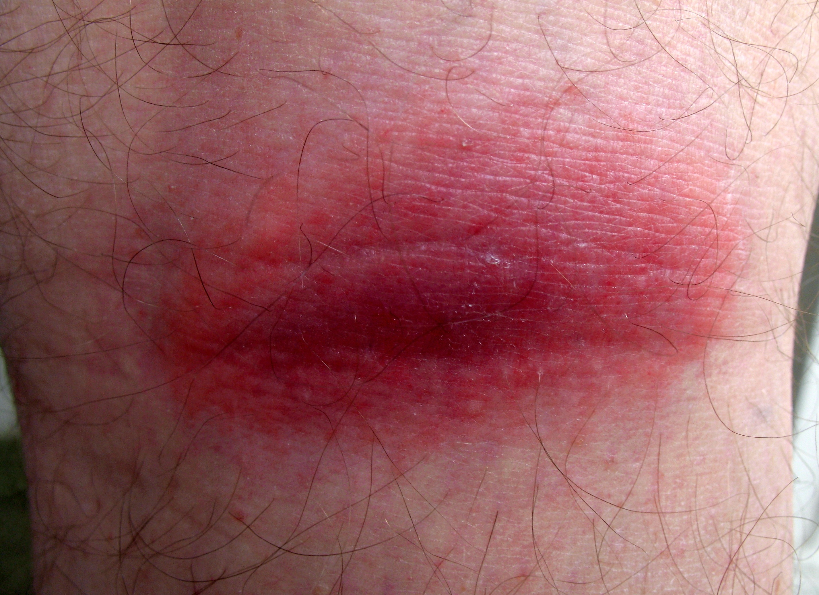 Atypical erythema three days after removal of a Borrelia-positive tick from skin at the hollow of the knee